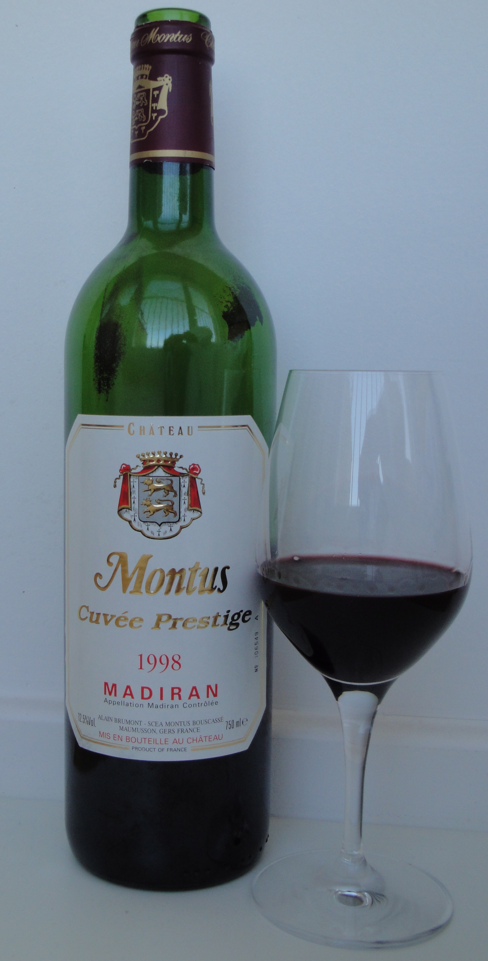 Montus Cuvée Prestige 1998, a 100% Tannat wine from Madiran produced by Alain Brumont